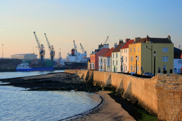 Town Wall, Hartlepool, Durham, England. Dating from the late 14th century the limestone wall once enclosed the whole of the medieval town. The terraced houses overlook the entrance to Victoria Docks in the background.